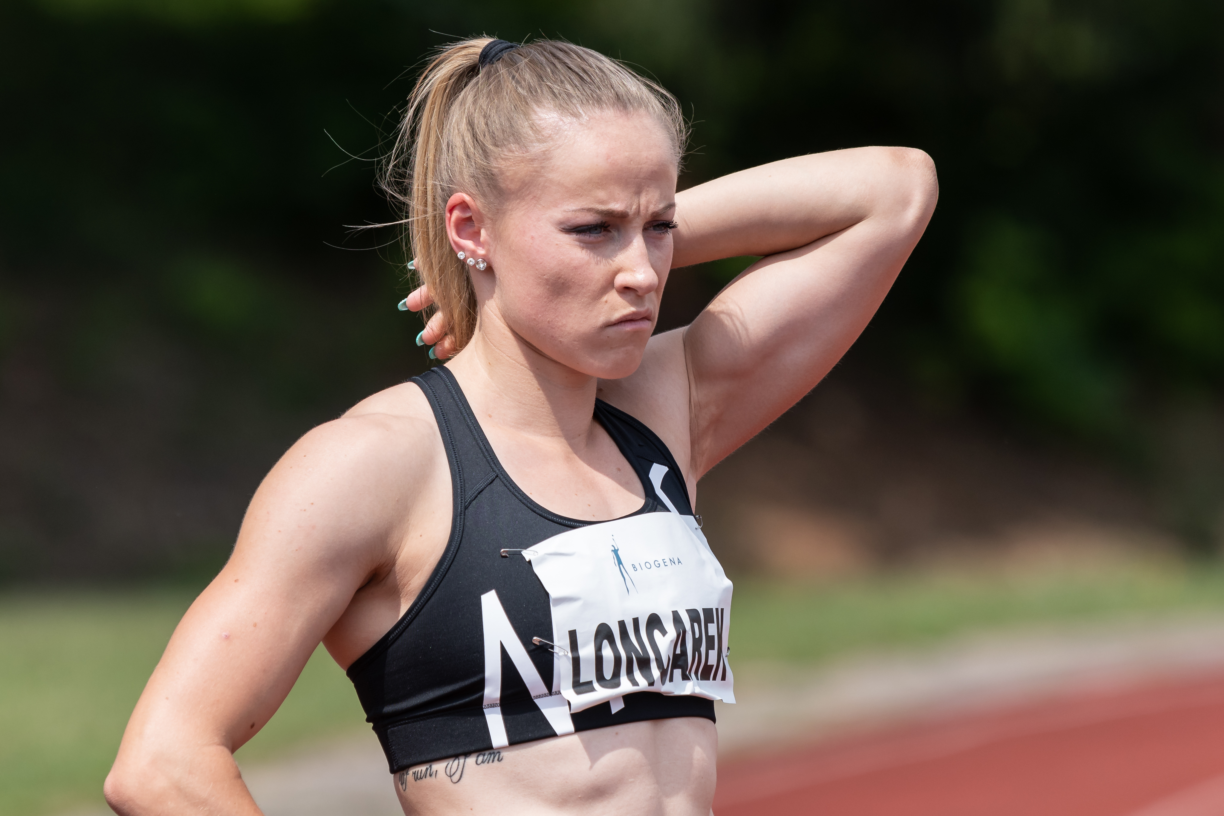 Leichtathletik Gala Linz 2018; women´s 100 m hurdles;Lončarek Ivana, AK Zagreb-Ulix (CRO)